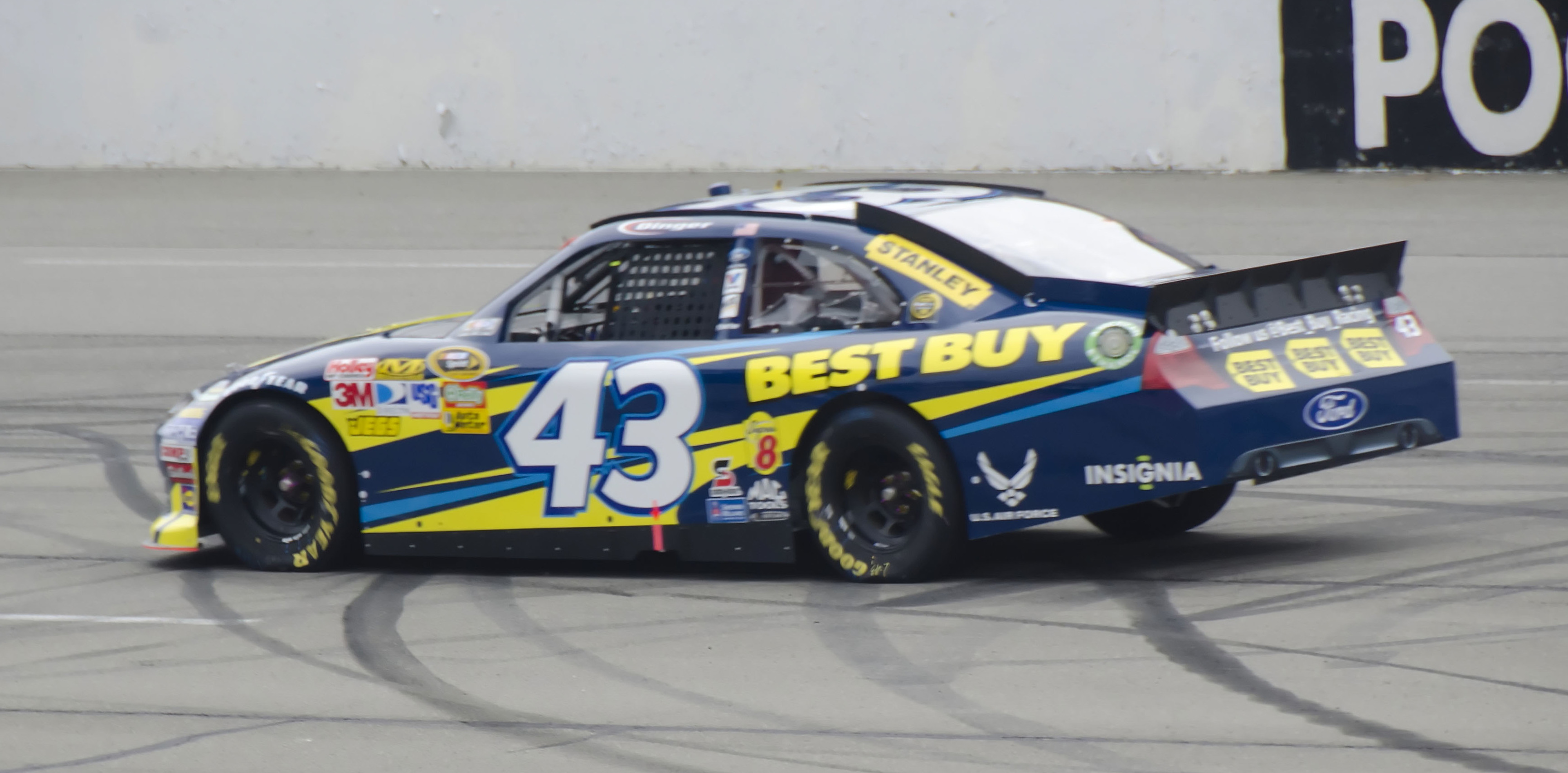 A.J. Allmendinger's No. 43 Best Buy Ford at Pocono Raceway in 2011